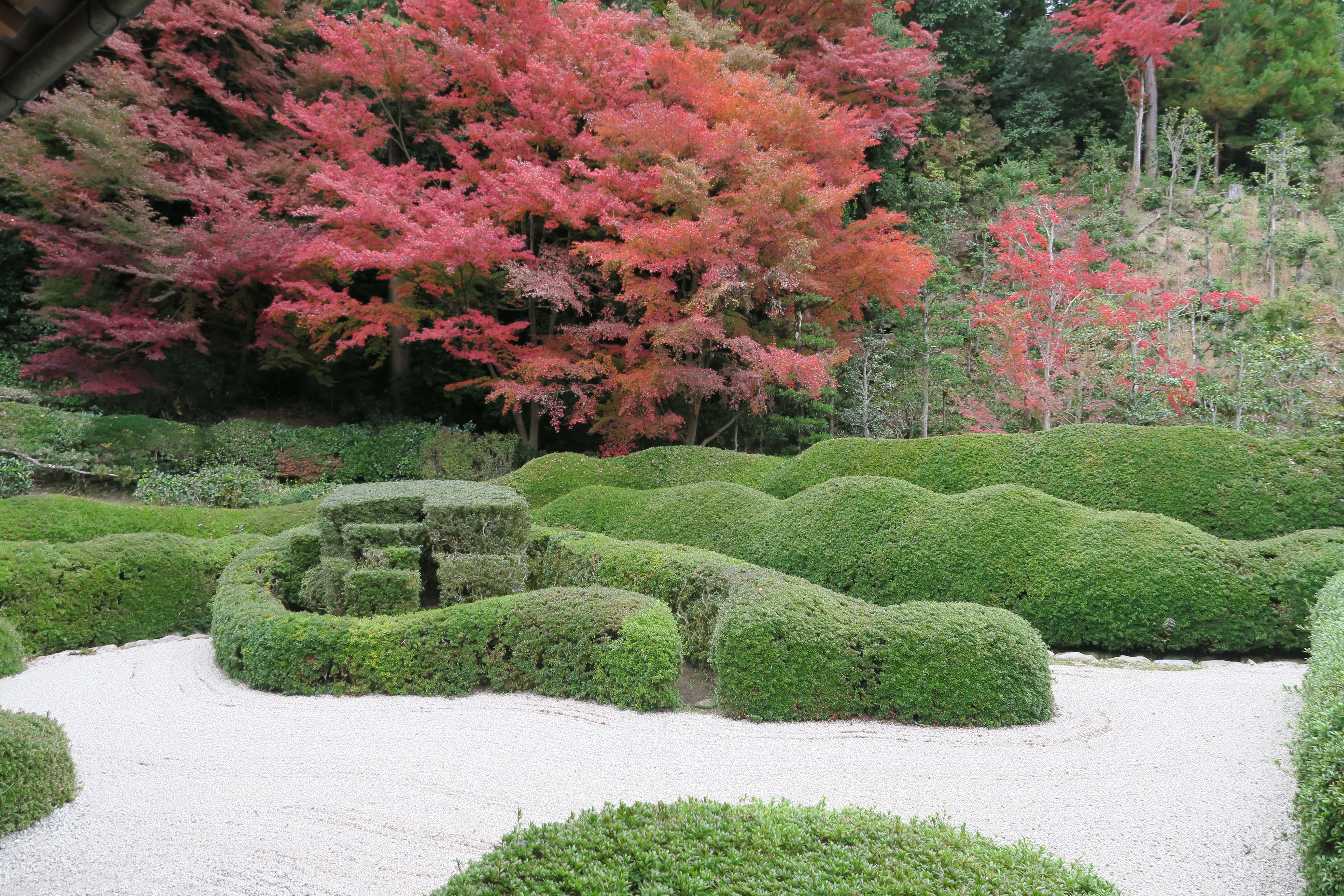 Garden at Daichi-ji, Koka, Shiga, Japan